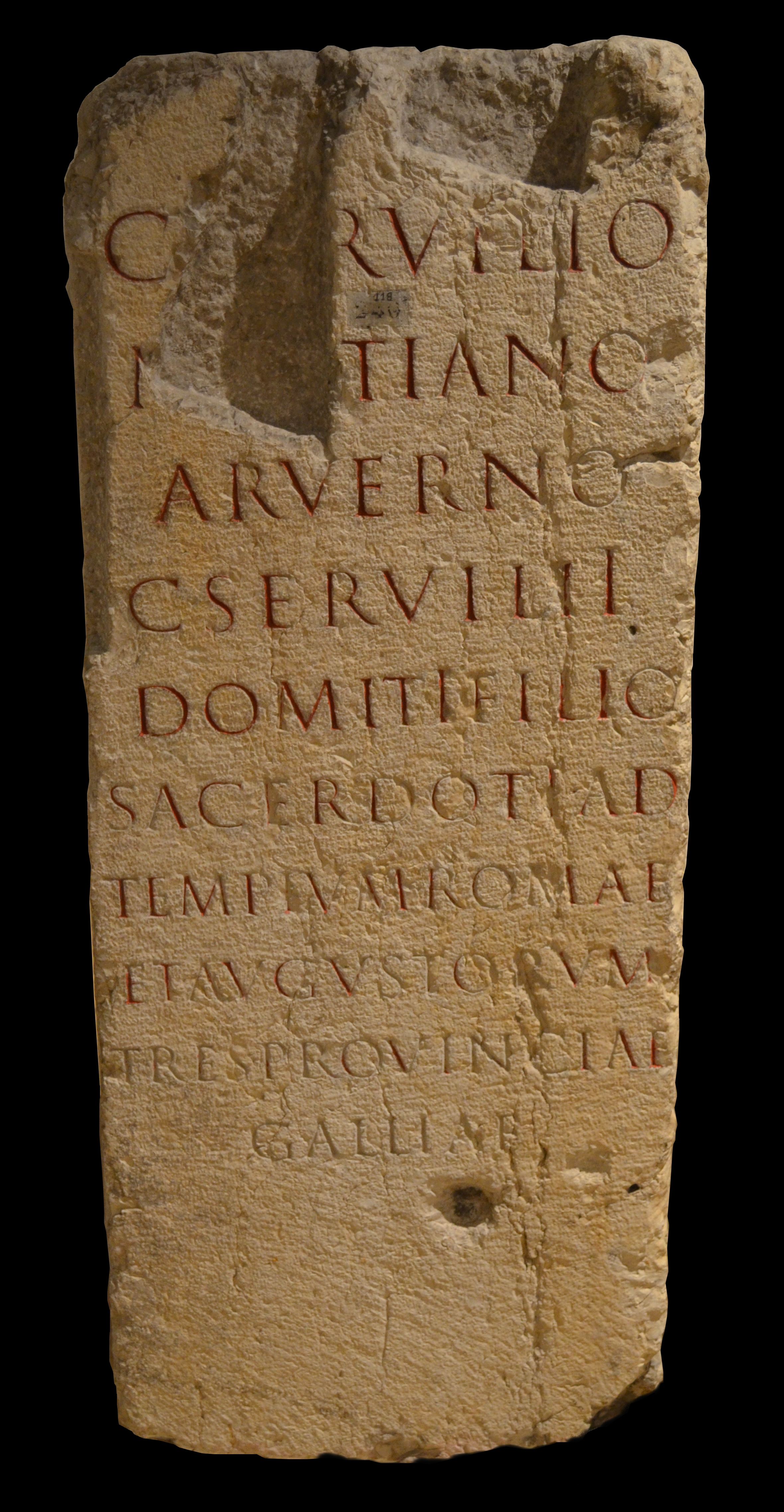 Caius Servilius Martianus, of the Arverni, son of Caius Servilius Domitus, priest at the temple of Rome and the Augusti, the three provinces of Gaul Gallo-Roman Museum of Lyon. This block was discovered in the 16th century, in a Chavanne street in Lyon, France, near the door of the old chapel of Saint-Côme (now destroyed). Height: 147 cm; width: 61 cm.